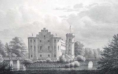 Illustration of Basnaes, an estate in Zealand, Denmark